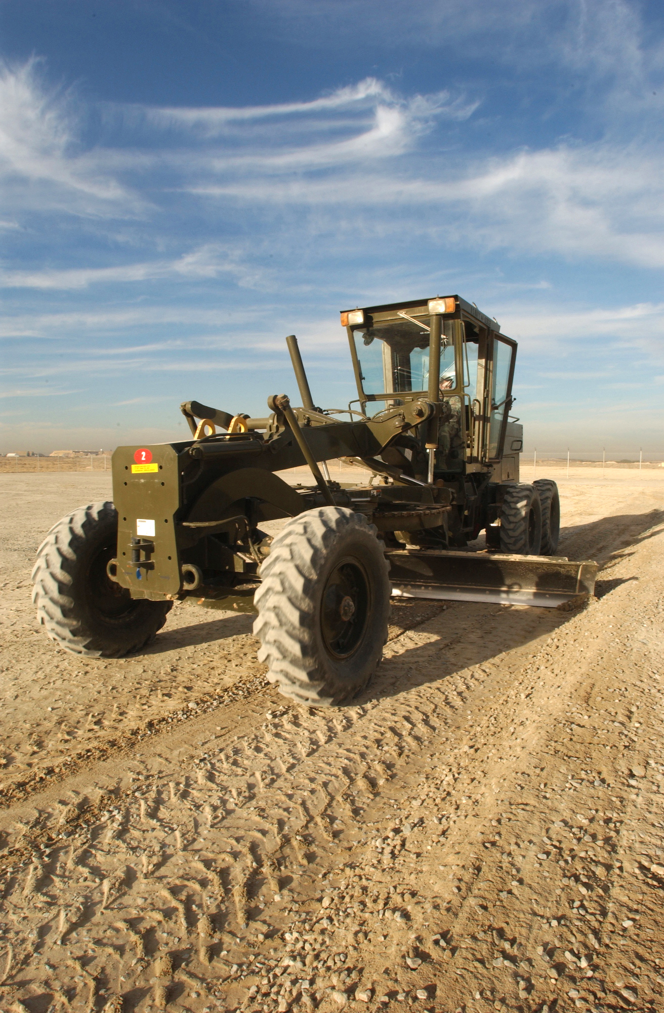 Central Command Area of Responsibility (Jan. 08, 2003) -- Equipment Operator 3rd Class Joshua Winjum assigned to the Naval Mobile Construction Battalion Five (NMCB-5) operates a road grader to evenly level a helicopter staging area. The Seabees are constructing the staging area for future operations in the Central Command Area of Responsibility. NMCB-5 is home based out of Port Hueneme, Calif. and is currently forward deployed in support of Operation Enduring Freedom. U.S. Navy photo by Photographer’s Mate 1st Class Brien Aho. (RELEASED)